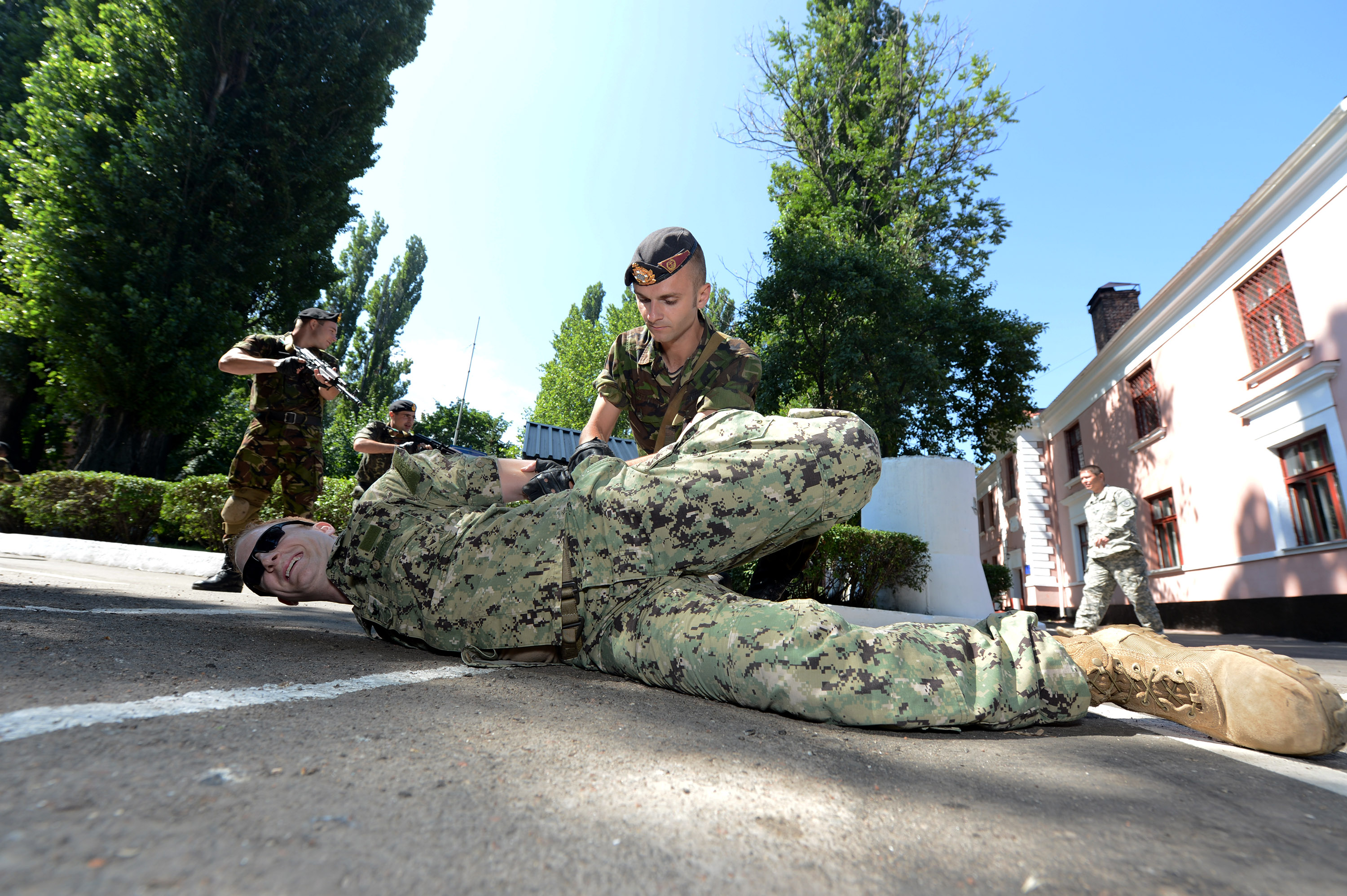 ODESSA, Ukraine (July 15, 2013) A Ukrainian marine takes down U.S. Maritime Interdiction Operations team member Petty Officer Daniel Roberts during visit, board, search, and seizure training at Ukrainian Western Naval Base as part of the annual multi-national exercise Sea Breeze 2013. Sea Breeze is a combined air, land and maritime exercise designed to improve maritime safety, security and stability in the Black Sea by enhancing the capabilities of Partnership for Peace and Black Sea regional maritime security forces. (U.S. Navy photo by Mass Communication Specialist 2nd Class Jason Howard/Released) 130715-N-XB816-045 Join the conversation navylive.dodlive.mil